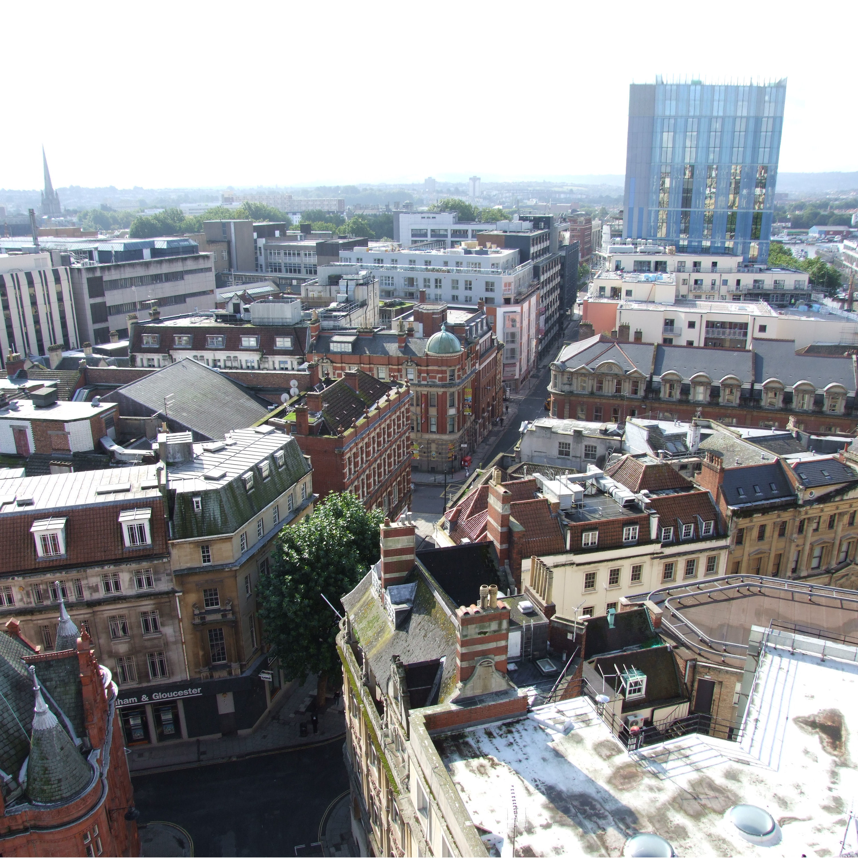 Marsh Street, Bristol, from the tower of St Stephen's